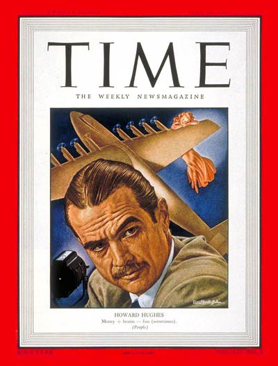 Time magazine, Volume 52 Issue 3. Front cover is an illustration of Howard Hughes.